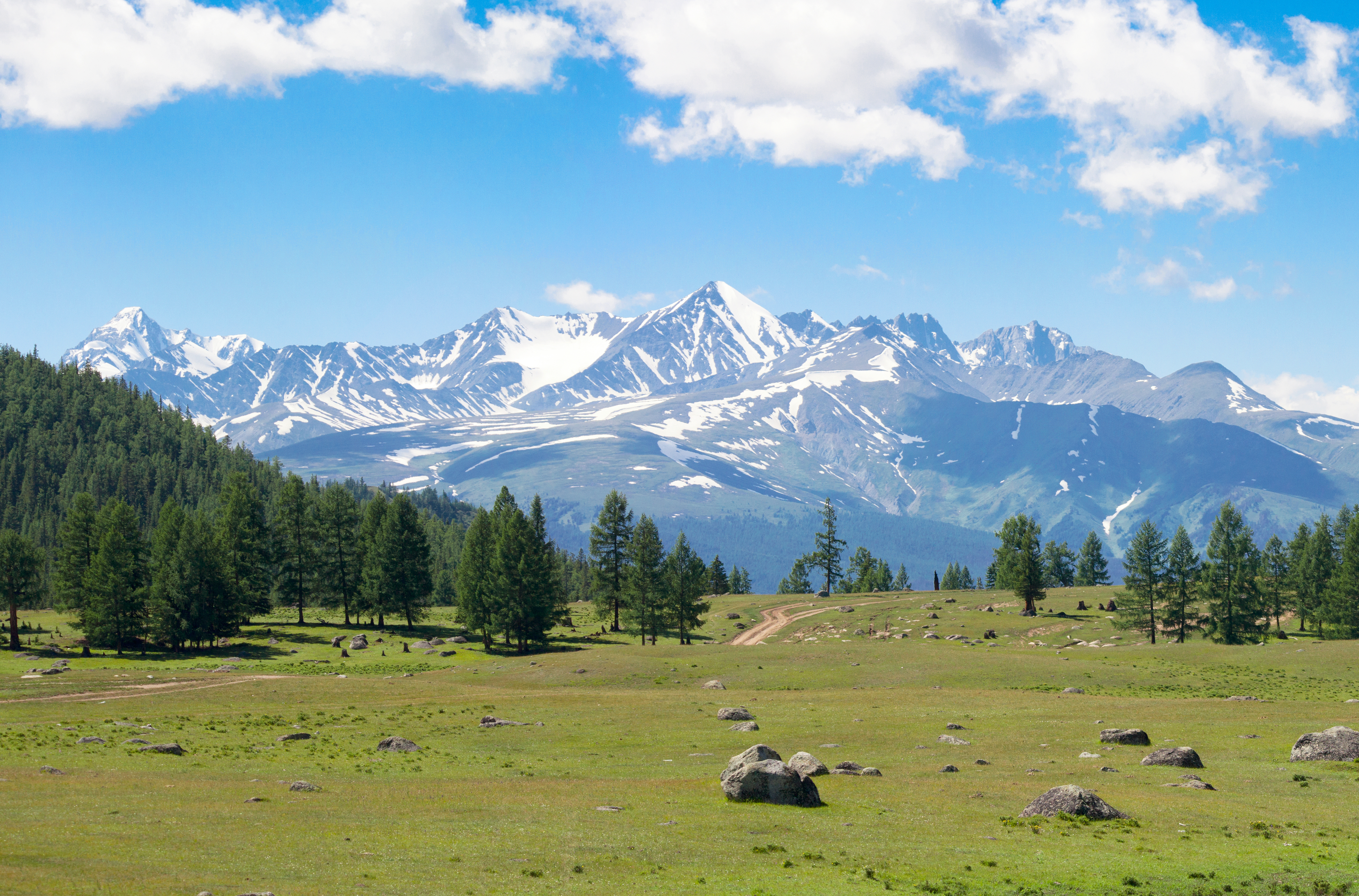 Shenel Mountain in Altai in the Katun Ridge